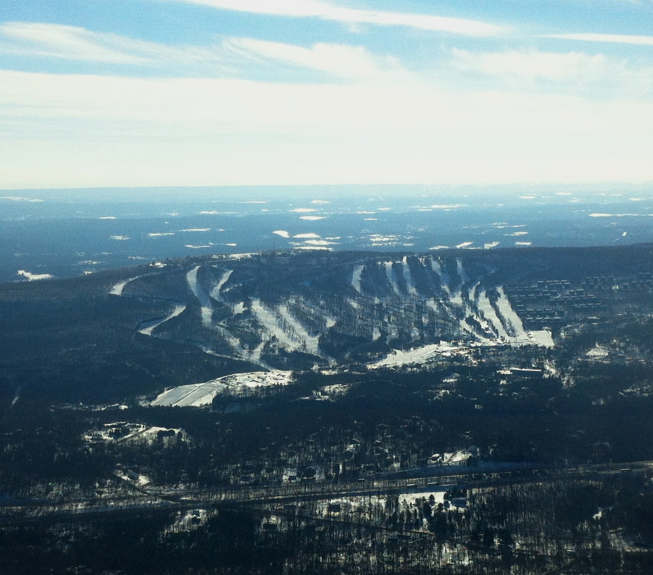 Aerial View of Camelback Ski Area.